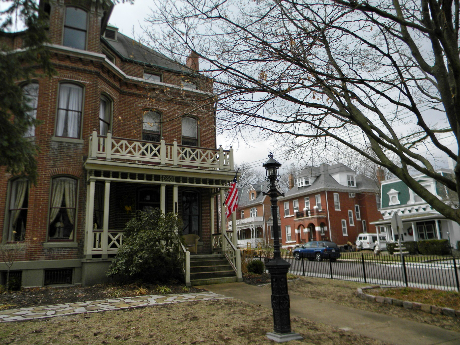 Stafford-Olive Historic District